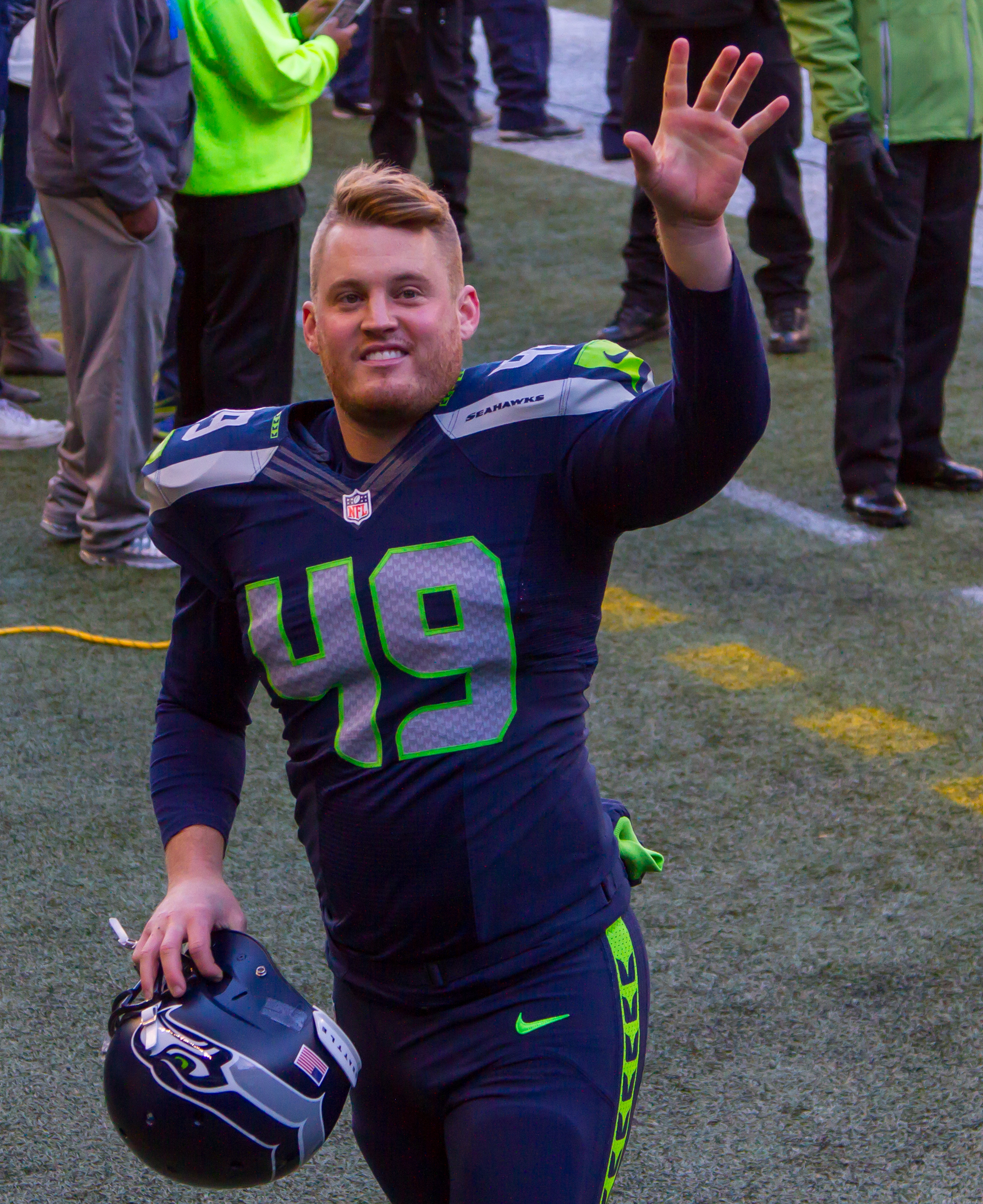 49ers at Seahawks 2014